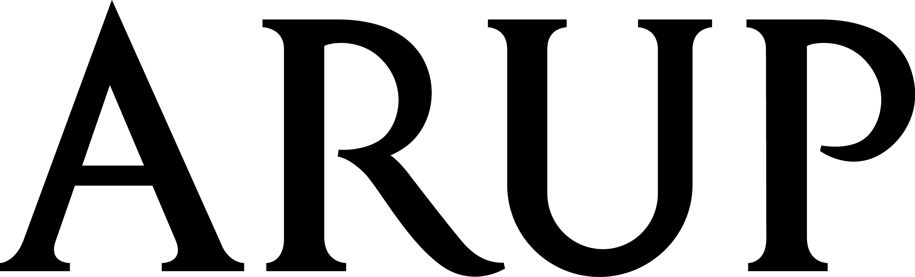 New brand Arup logo from 2010